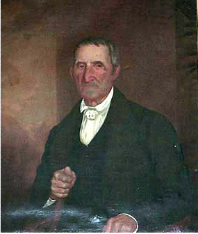 Portrait of Moses Van Campen, made in 1846